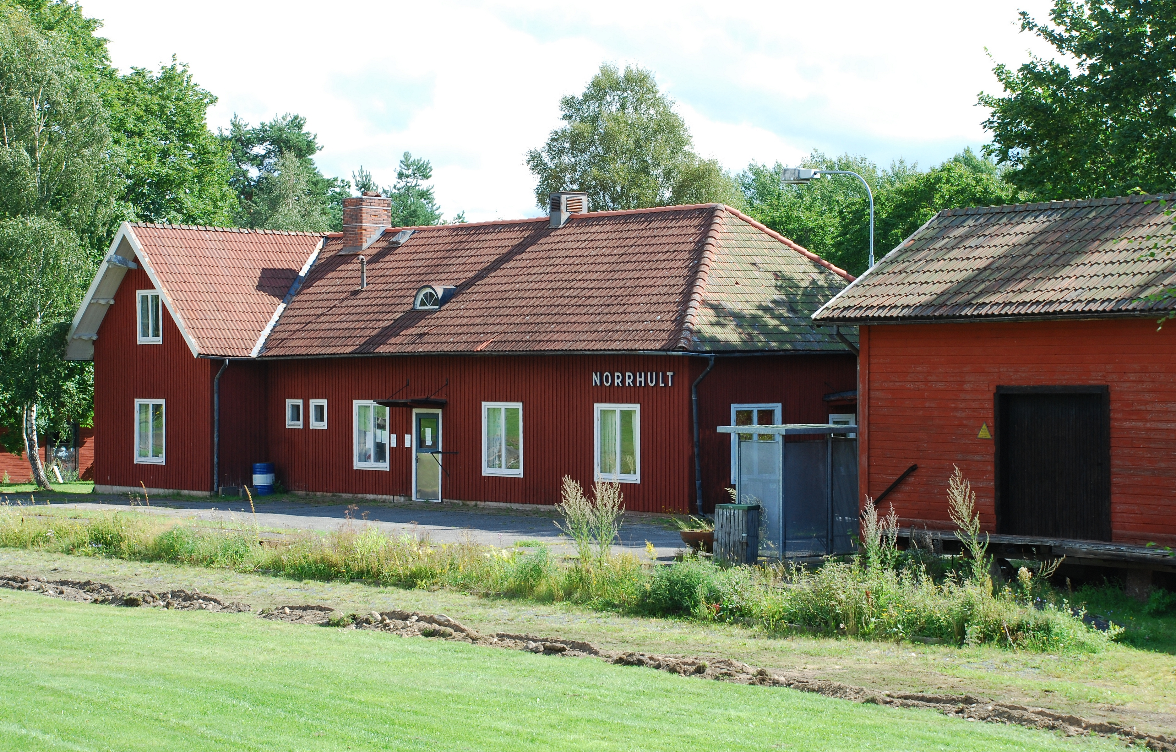 Norrhult, former train station at the narrow-gauge railway Växjö-Hultsfred-Västervik.